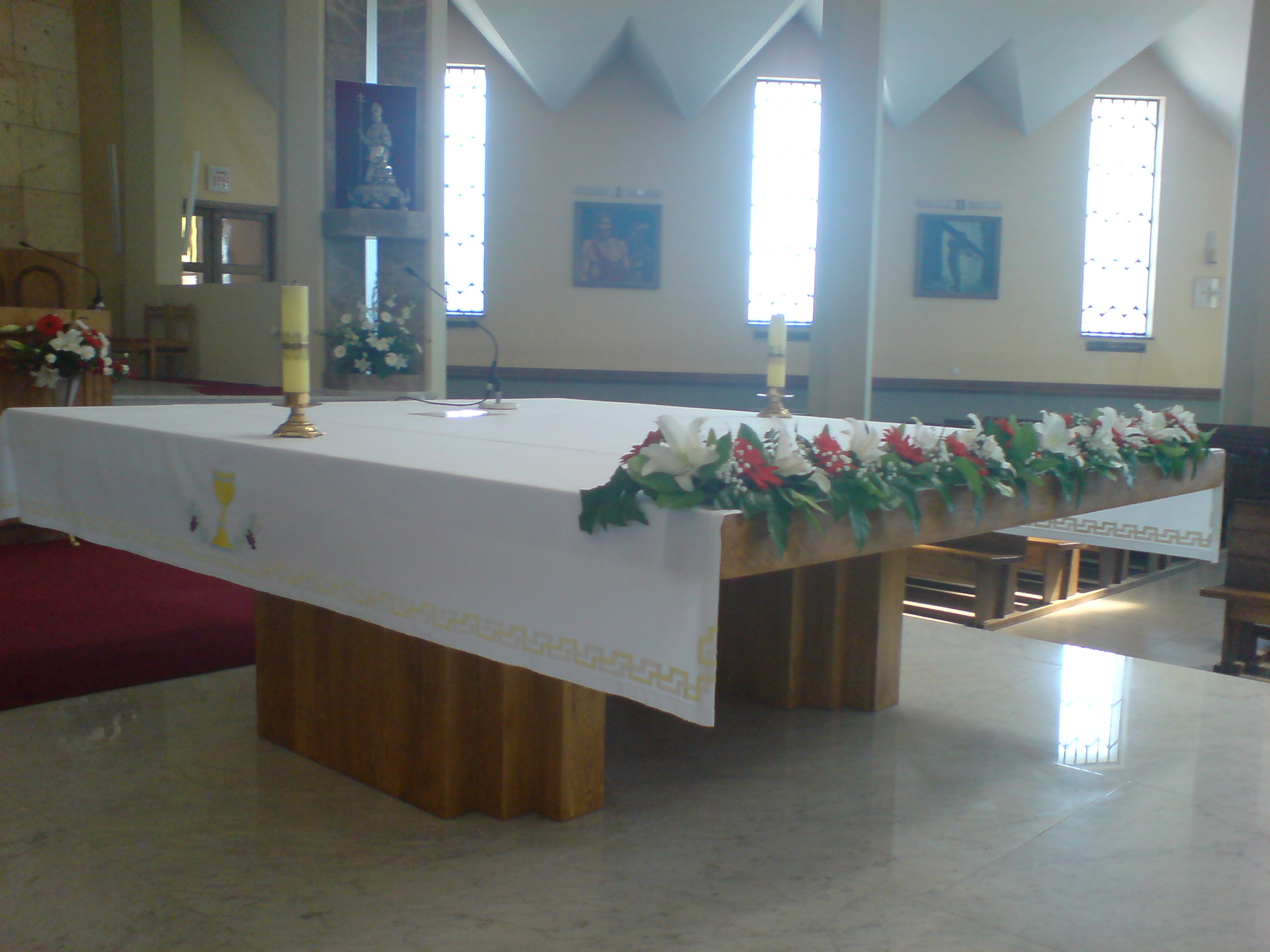 Altar. Blessed Radim Gaudentius'church in Gniezno